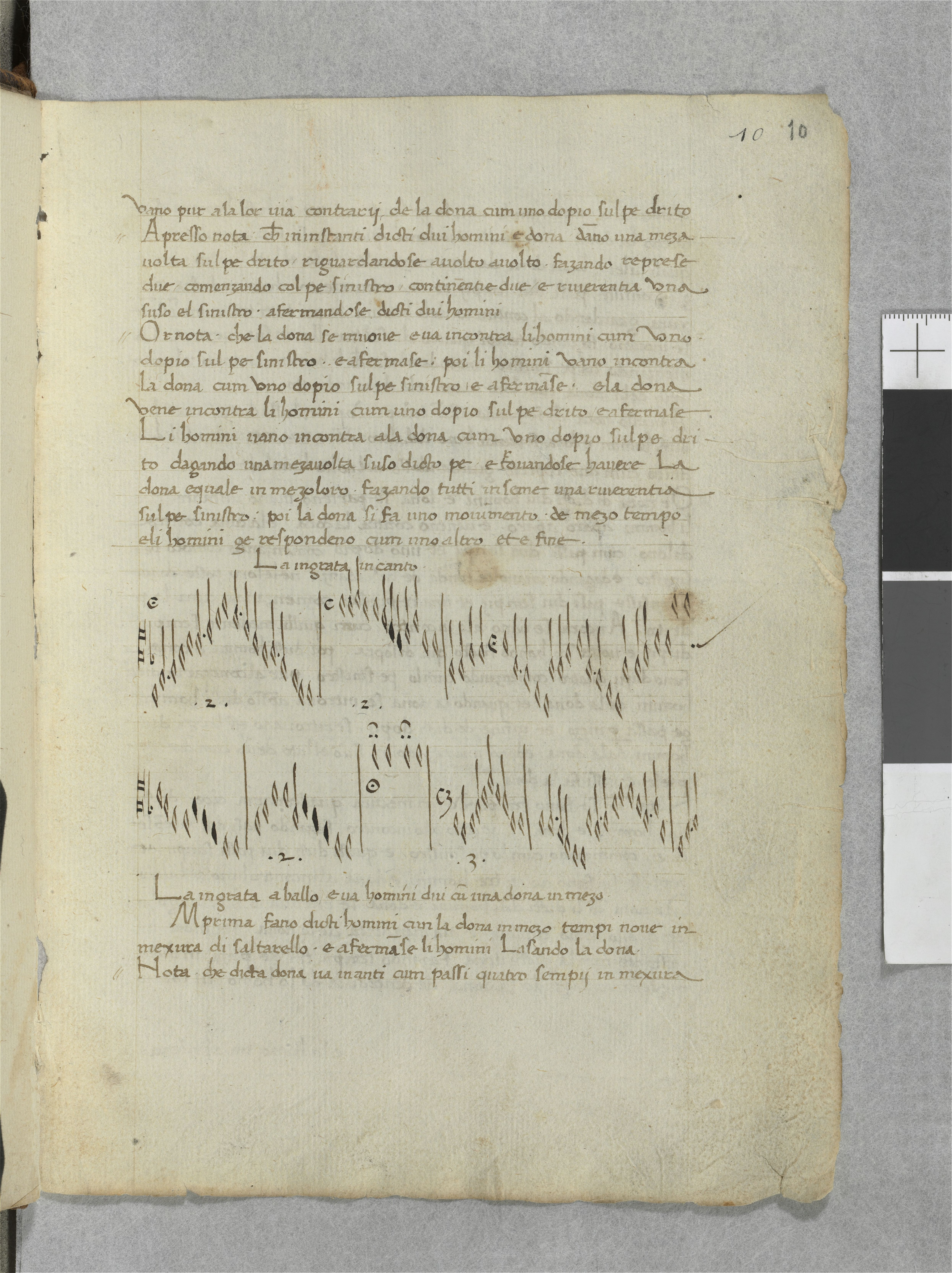 beginning of ballo Ingrata from Domenico da Piacenza dance manual "De arte saltandi et choreas ducendi / De la arte di ballare et danzare"